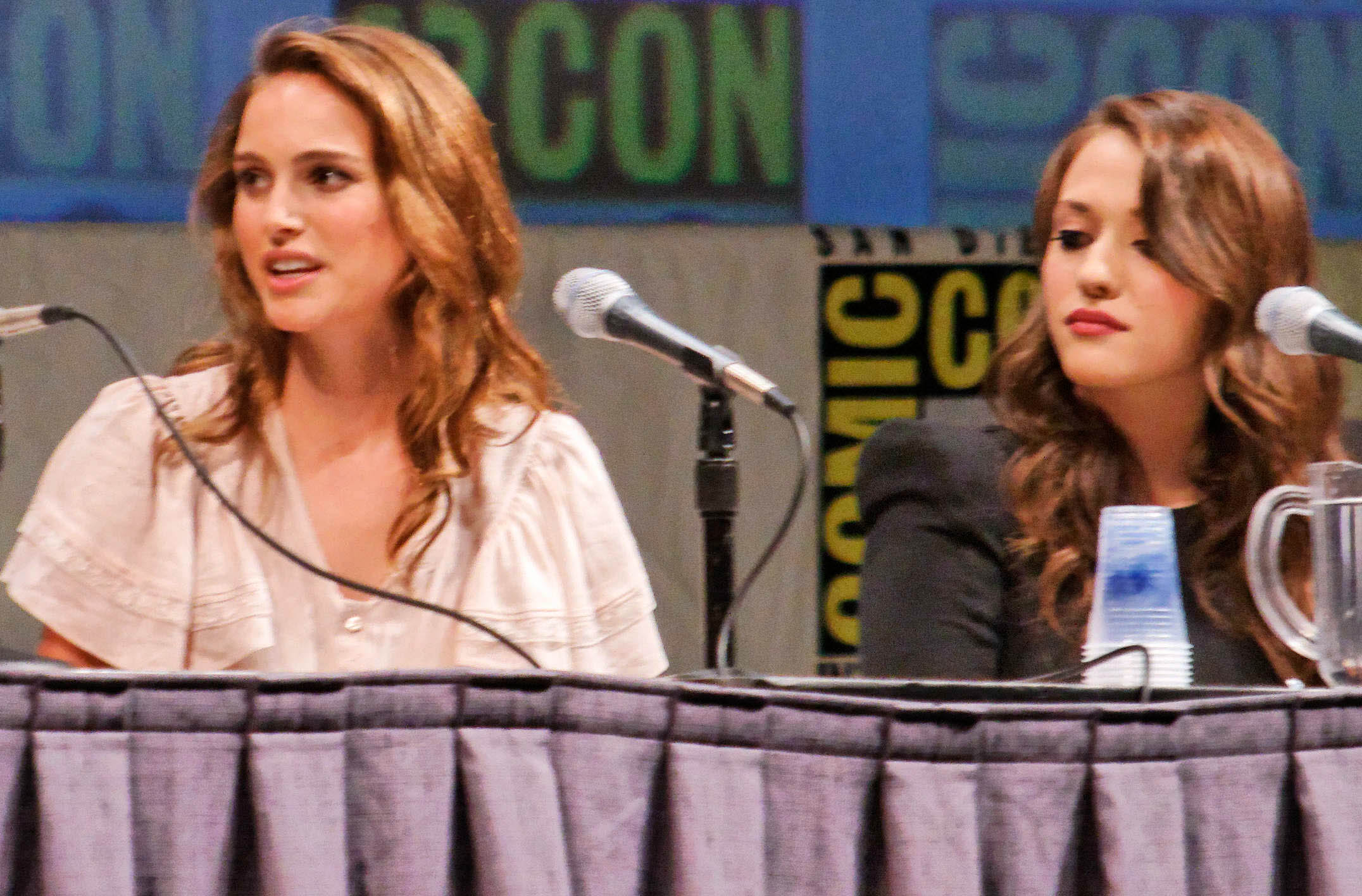 Thor panel from the 2010 San Diego Comic-Con International with Natalie Portman and Kat Dennings.